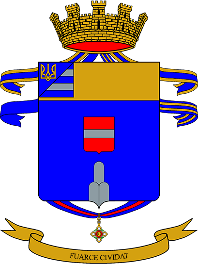 Coat of Arms of the 15° Alpini Regiment; Italian Army.